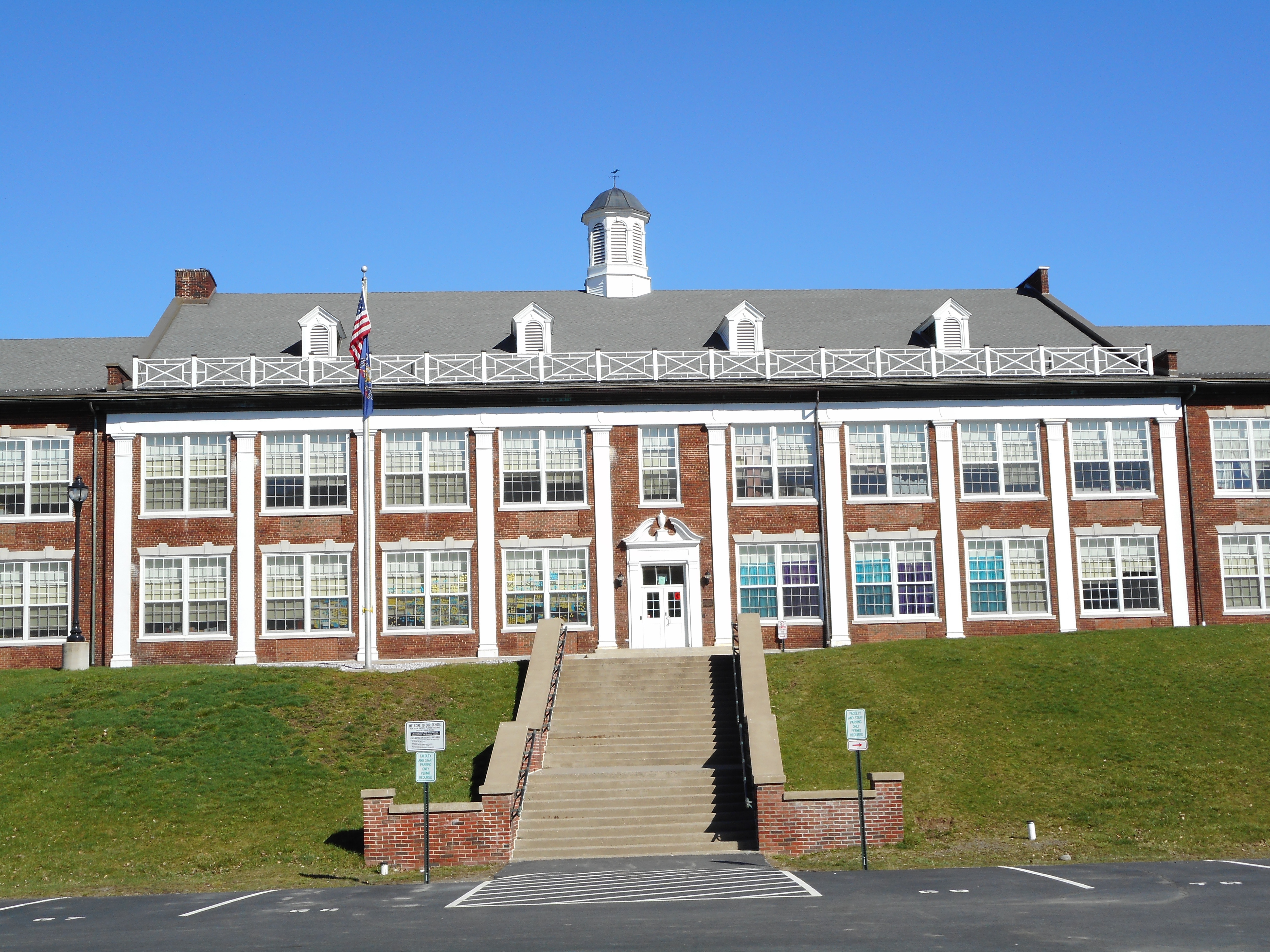 Troy Public High School listed on the NRHP on February 20, 2002 at 250 High Street, Troy, Pennsylvania